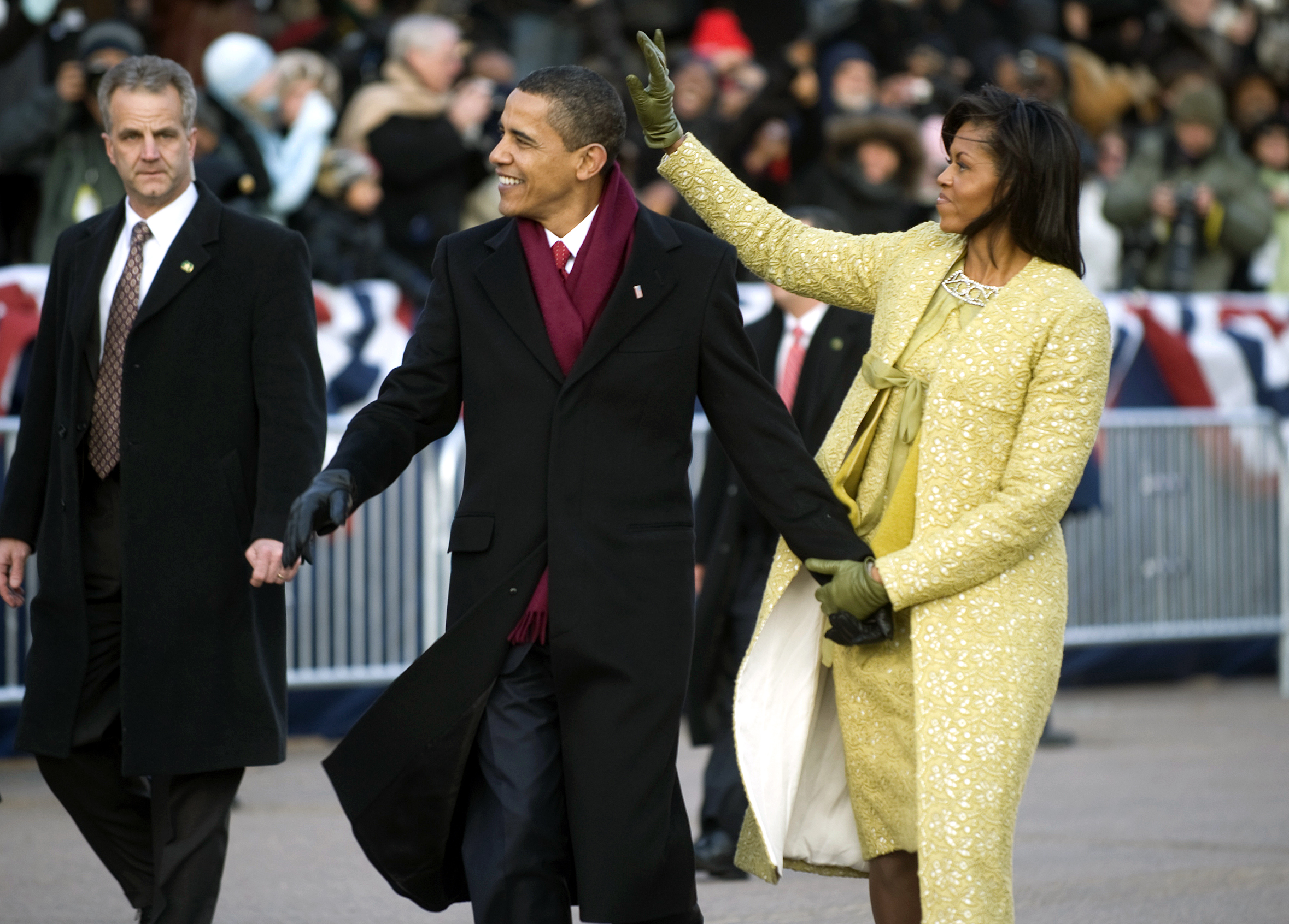 President Barack Obama and first lady Michelle Obama wave to the crowds lining Pennsylvania Avenue during the 56th Inaugural parade, Washington, D.C., Jan. 20, 2009.